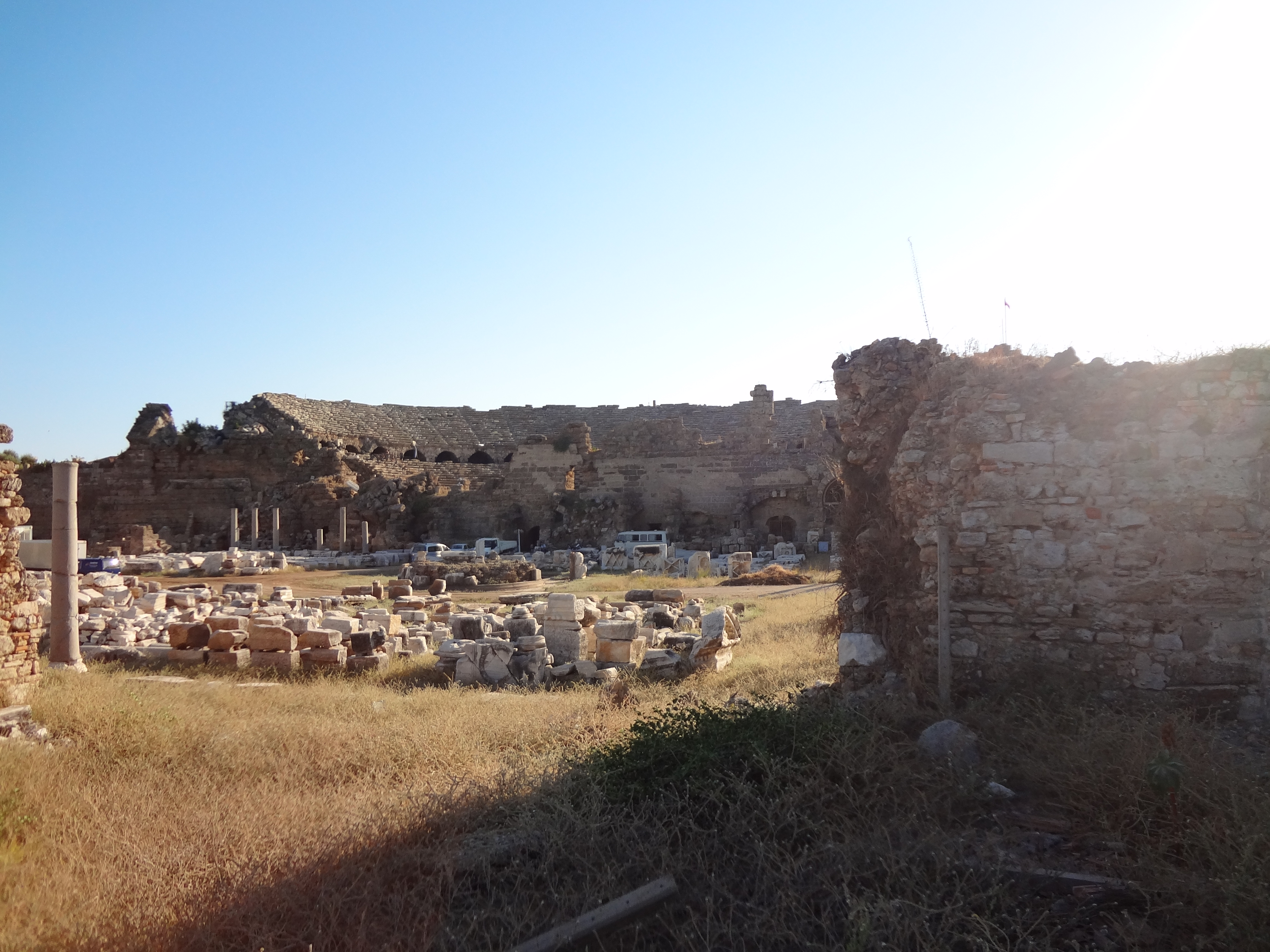 Side amphitheater.